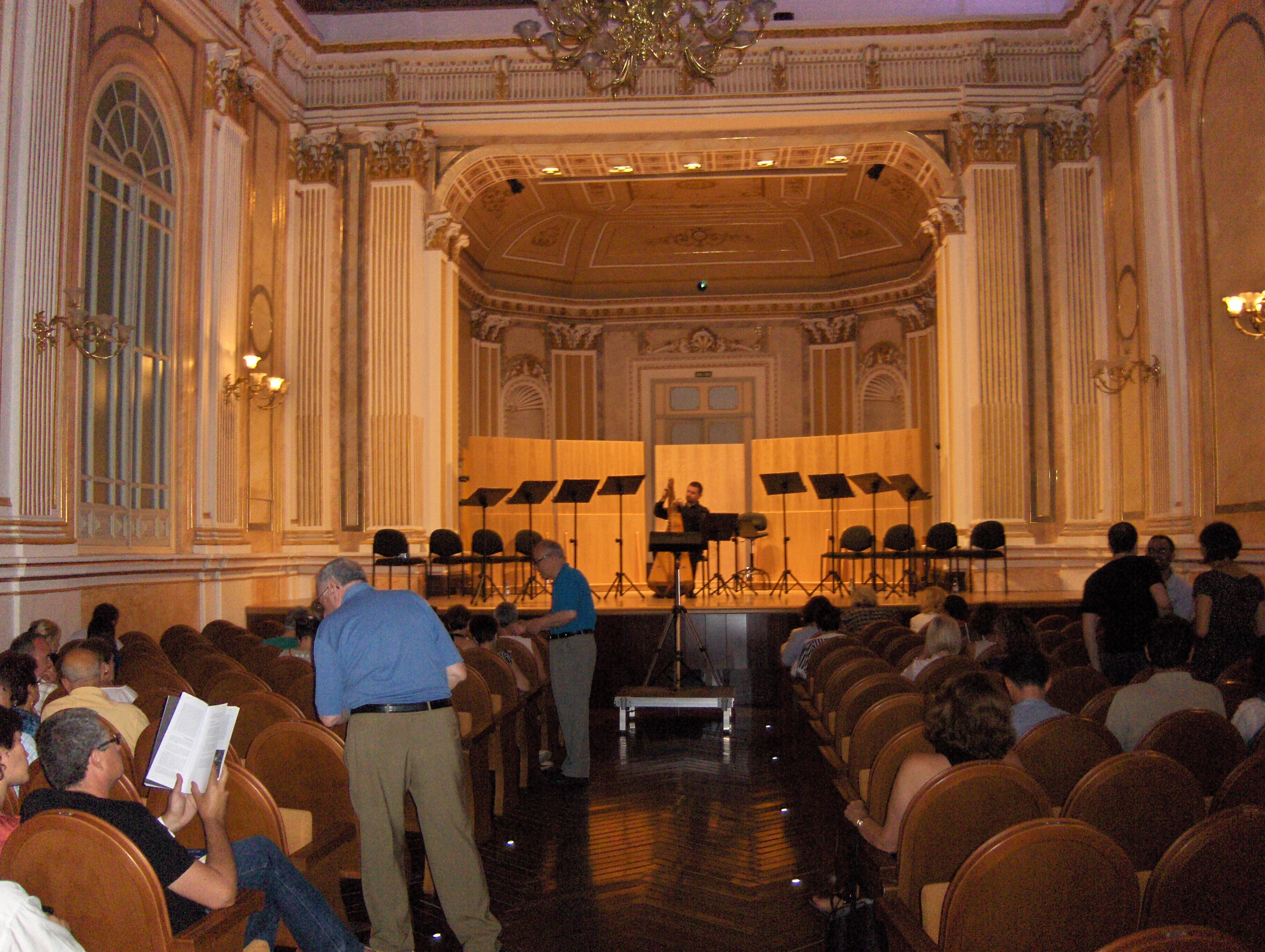 Sala María Cristina, Málaga